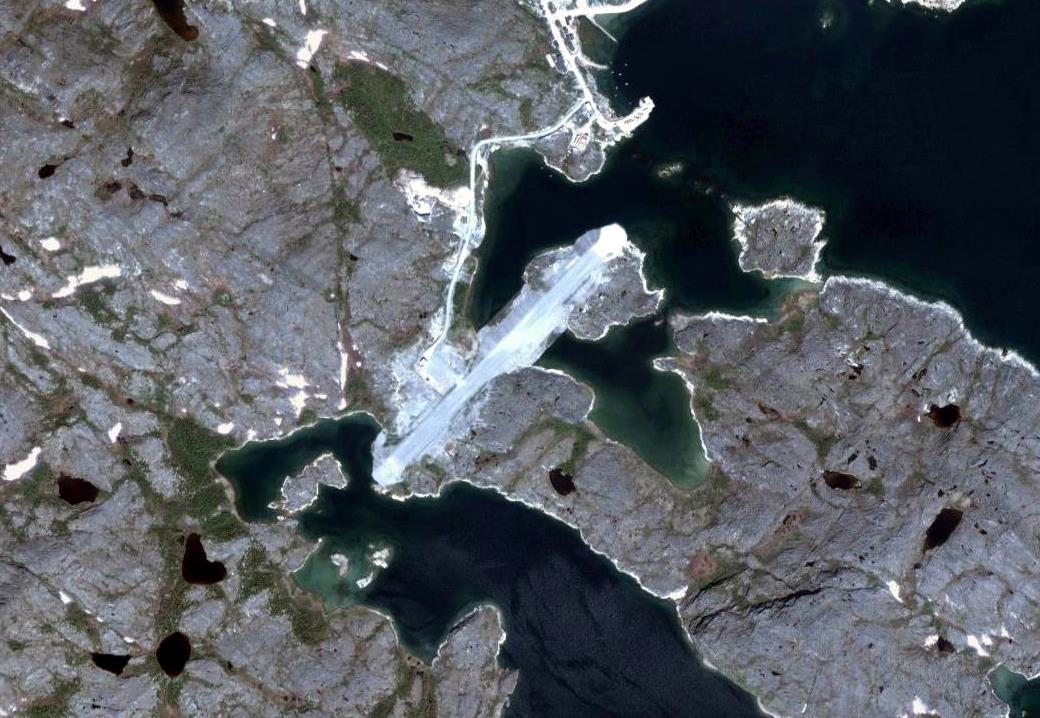 Hopedale Airport